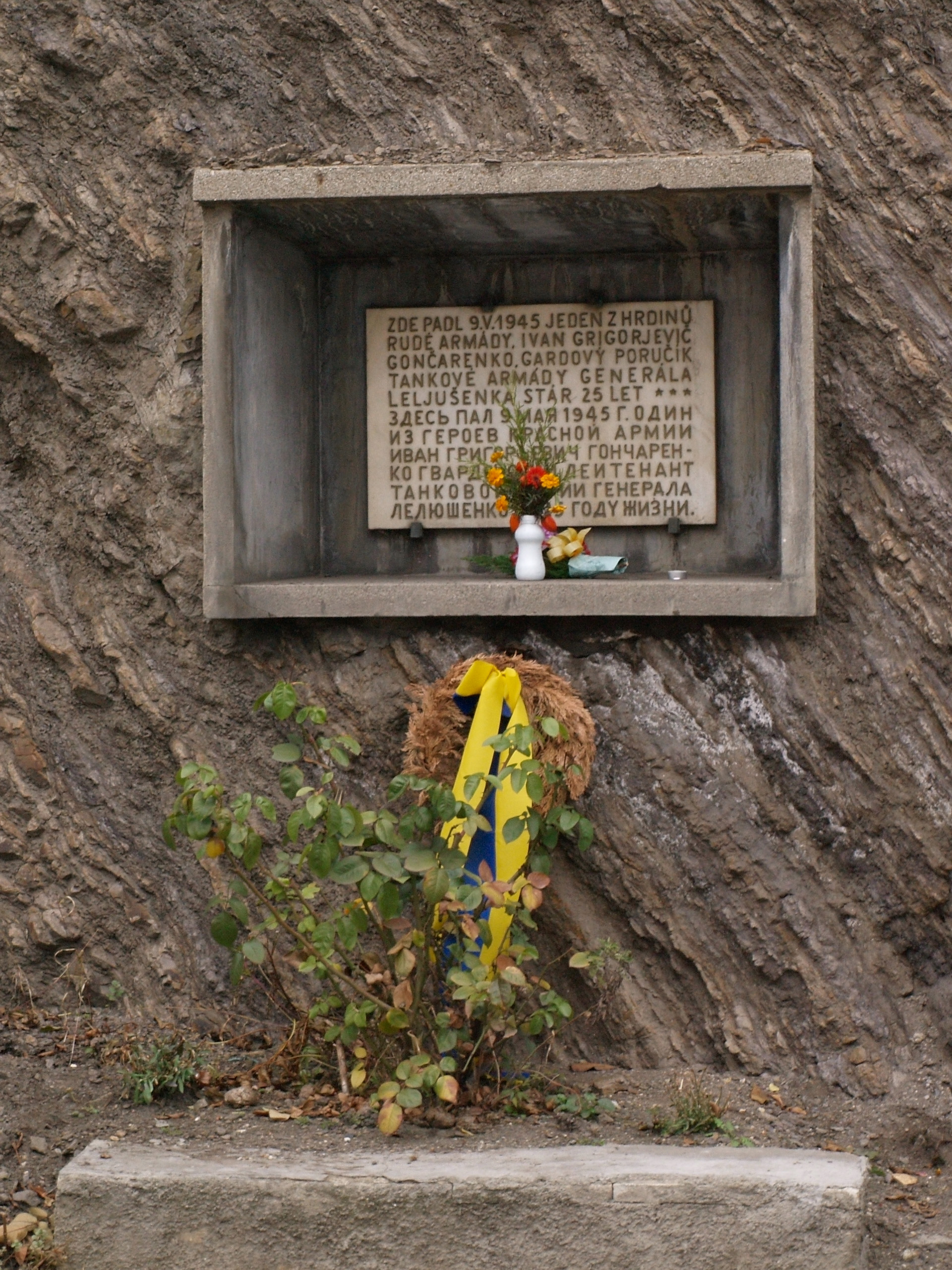 Memorial for Ivan Grigoryevich Goncharenko (died May 9, 1945 during liberation of Prague), guards lieutenant of tank brigade of Soviet general Lelyushenko